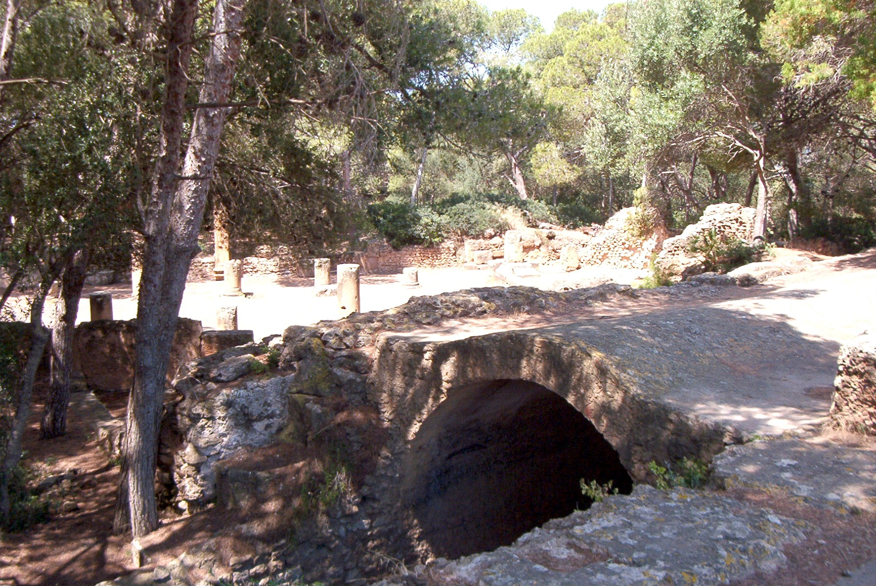 Entry to the ruins of the Ancient Roman forum and Byzantine era Basilica of St. Crispinus crypt — in Tipaza, northern Algeria.